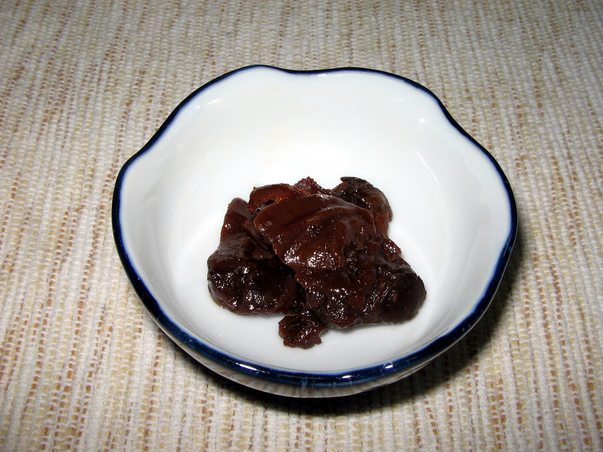 Shigure clam (A kind of tsukudani of clams (Meretrix lusoria)) in Kuwana, Mie, Japan